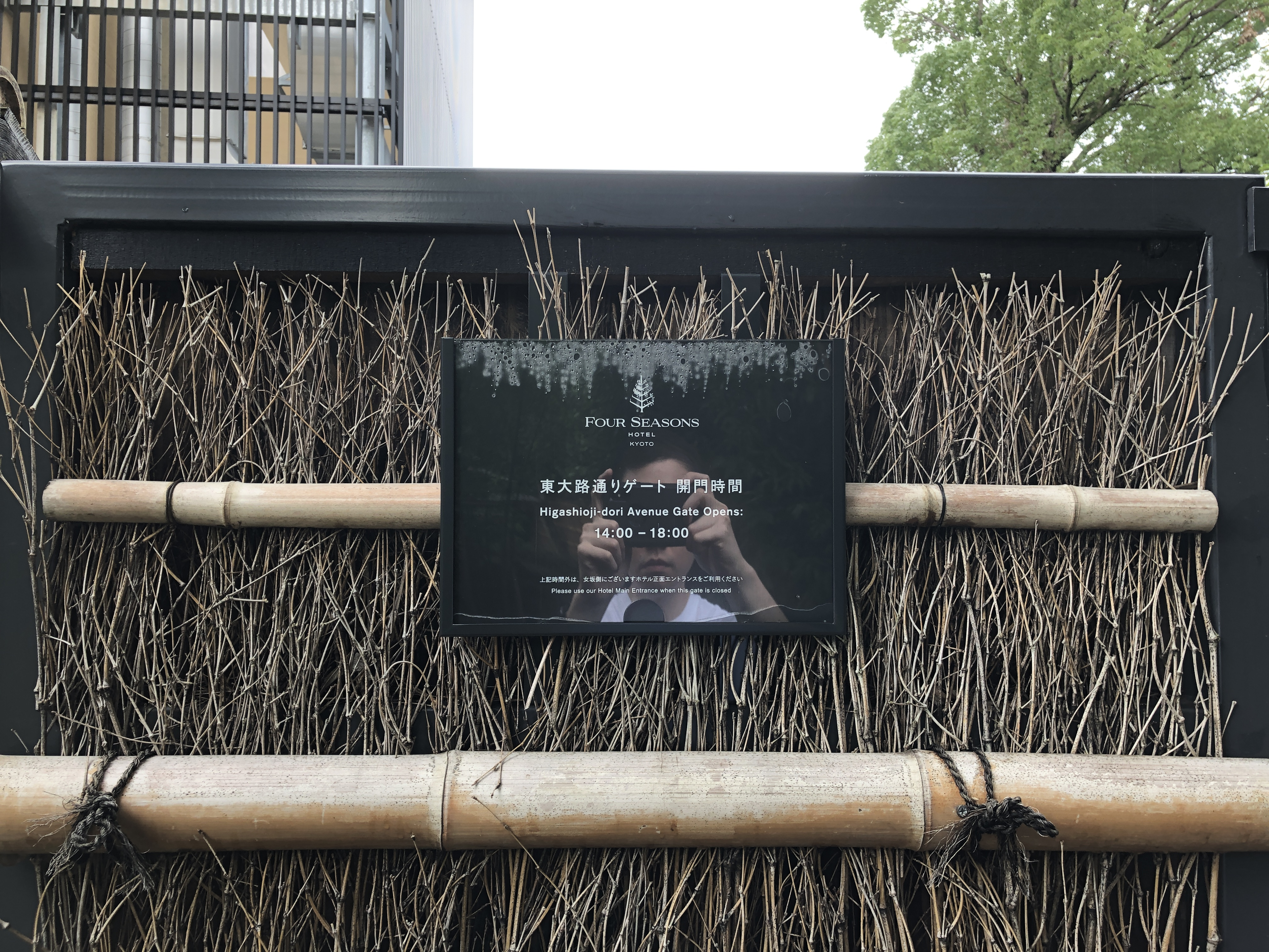 An English/Japanese sign explaining the Higashioji-Dori Avenue Gate's opening hours inside Four Seasons Hotel Kyoto.